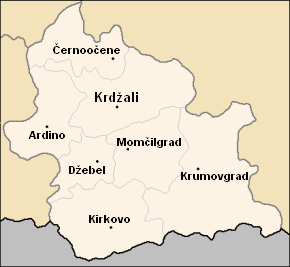 Croatian names on map of Kardzhali District (Bulgaria)